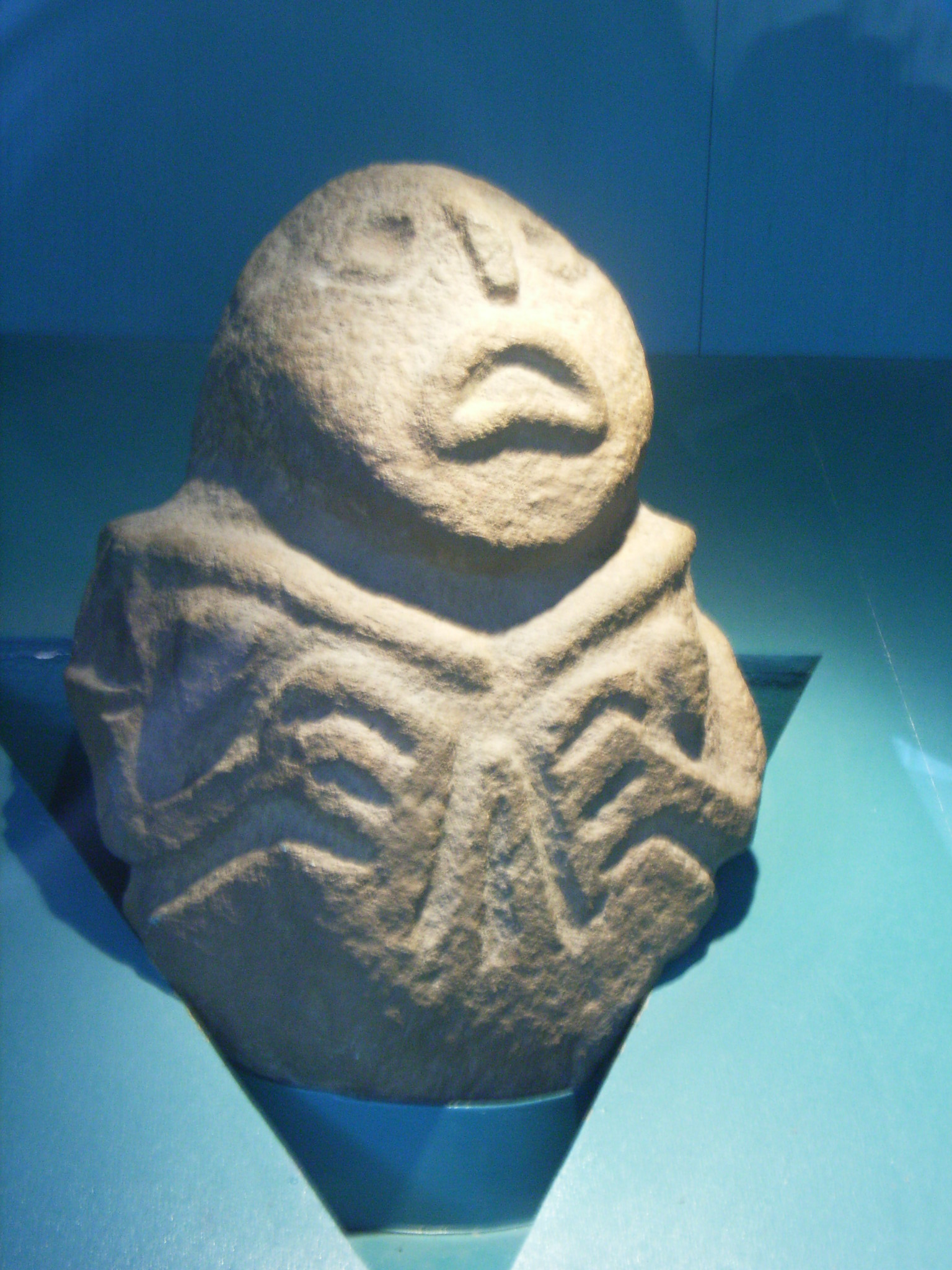 Scupture of a head, found at the archaeological site of Lepenski Vir in Serbia